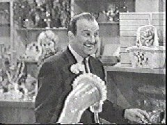 From the public domain episode of The Jack Benny Program jack does christmas shopping